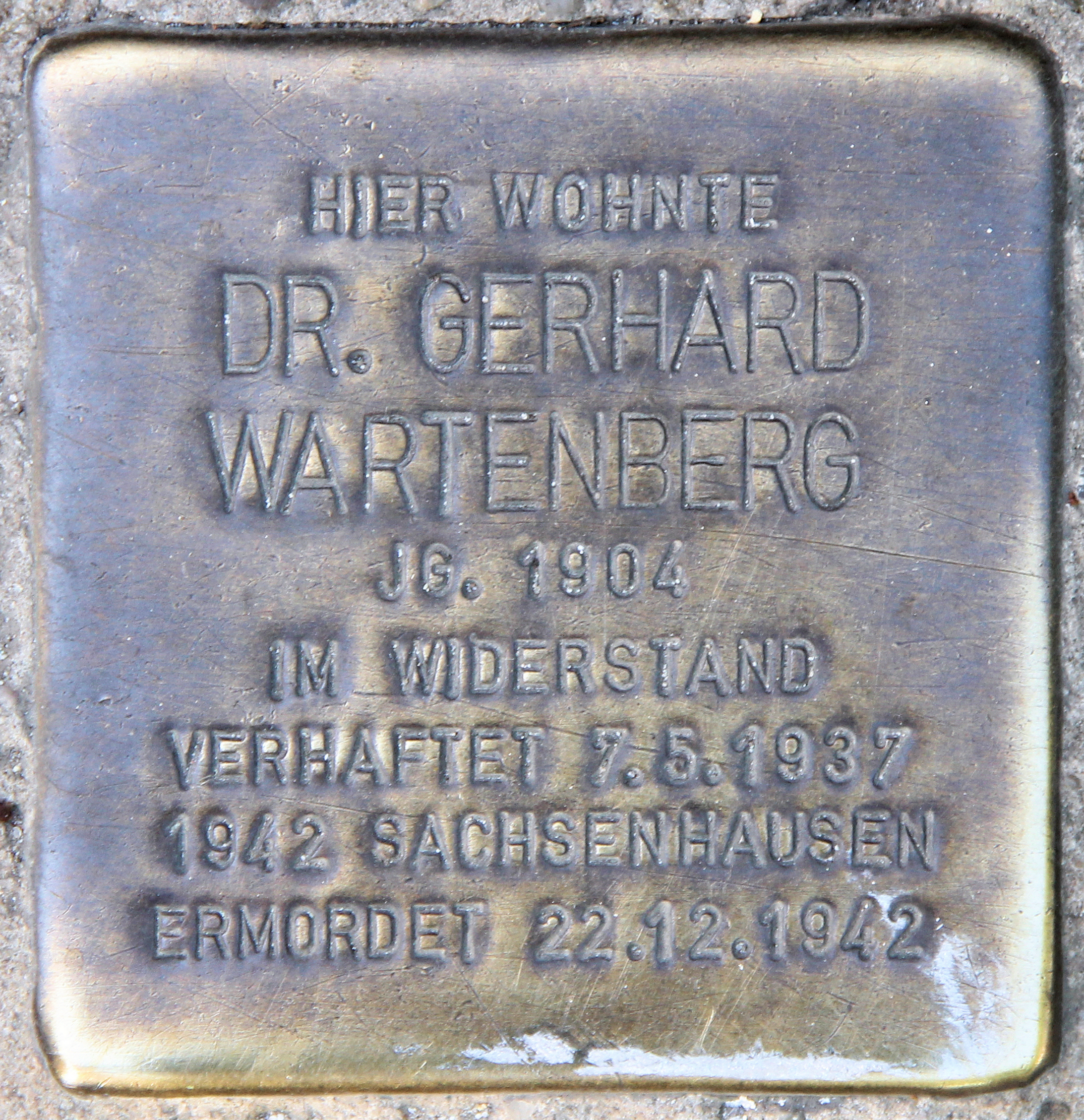 "stumbling block", Gerhard Wartenberg, Alt-Tempelhof 9, Berlin-Tempelhof, Germany Koordinate:52°27′56″N 13°23′15″E / 52.46556°N 13.3875°E